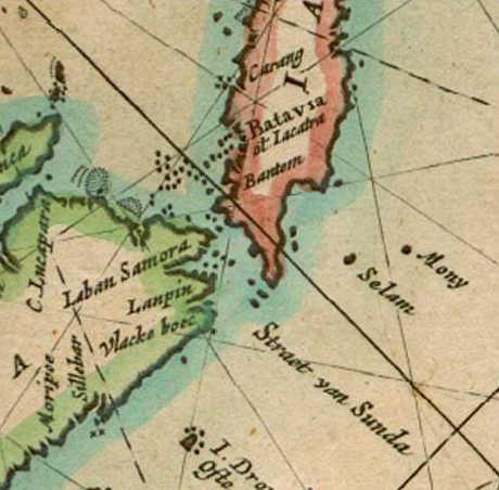 A part of Dutchman Pieter Goos' map of the East Indies (Paskaerte zynde t'oosterdeel van Oost Indien: met alle de eylanden deer ontrendt geleegen van C. Comorin tot aen Iapan). This small section of the map shows the location of Mony, now called Christmas Island. It is the first time Christmas Island appears on a map.